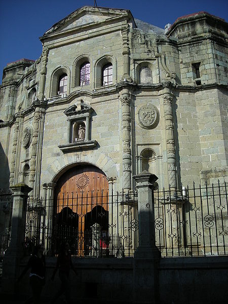 Church of the Society of Jesus near the main plaza of Oaxaca city in Mexico